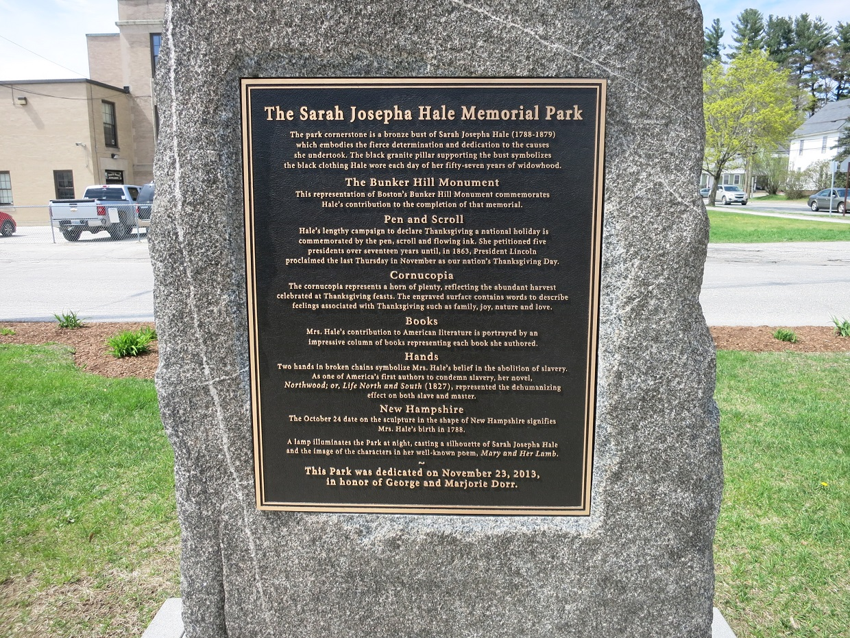 Photo shows the Sarah Josepha Hale plaque at the Richards Free Library at 58 N Main St, Newport, NH 03773. View is toward the northwest.